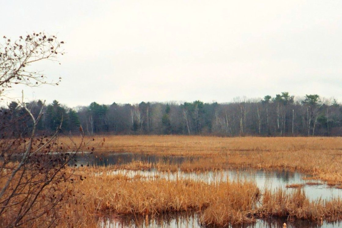 Waiting expectantly for spring to burst forth, now that the snow is gone. Freshwater marshes are non-forested, non-tidal, and have non-peat soils (unlike bogs and fens). They are most common in the Gulf Coast region, specifically in Florida. They can be either fresh water mineralized marshes, from groundwater, streams and surface runoff, or poorly mineralized fresh water marshes resulting from direct precipitation. They have their own ecosystems where the pH is usually neutral leading to an abundance of many different types of plants and wildlife. Abundant species include ducks, geese, swans, songbirds, swallows, and black ducks. Although the shallow marshes do not support many fish, deeper marshes are home to many species, including northern pike and carp. Some of the most common plants are cattails, water lilies, arrowheads, and rushes. Location is Kittery Point, ME.